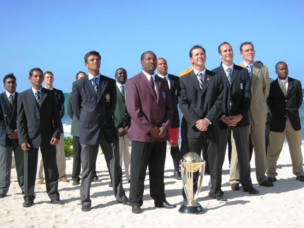 ICC CWC 2007 team captains with the world cup trophy